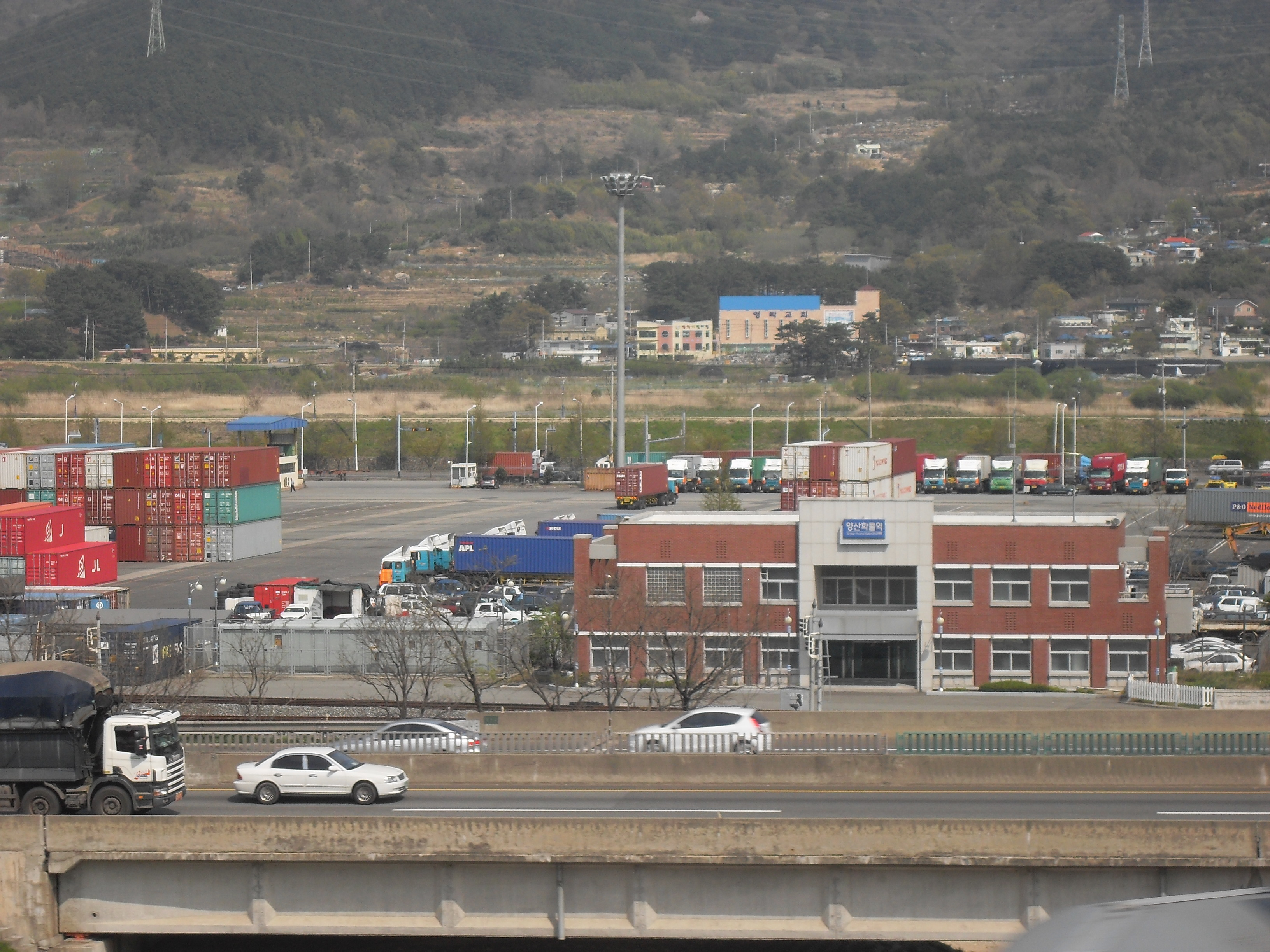 Yangsanhwamul station.